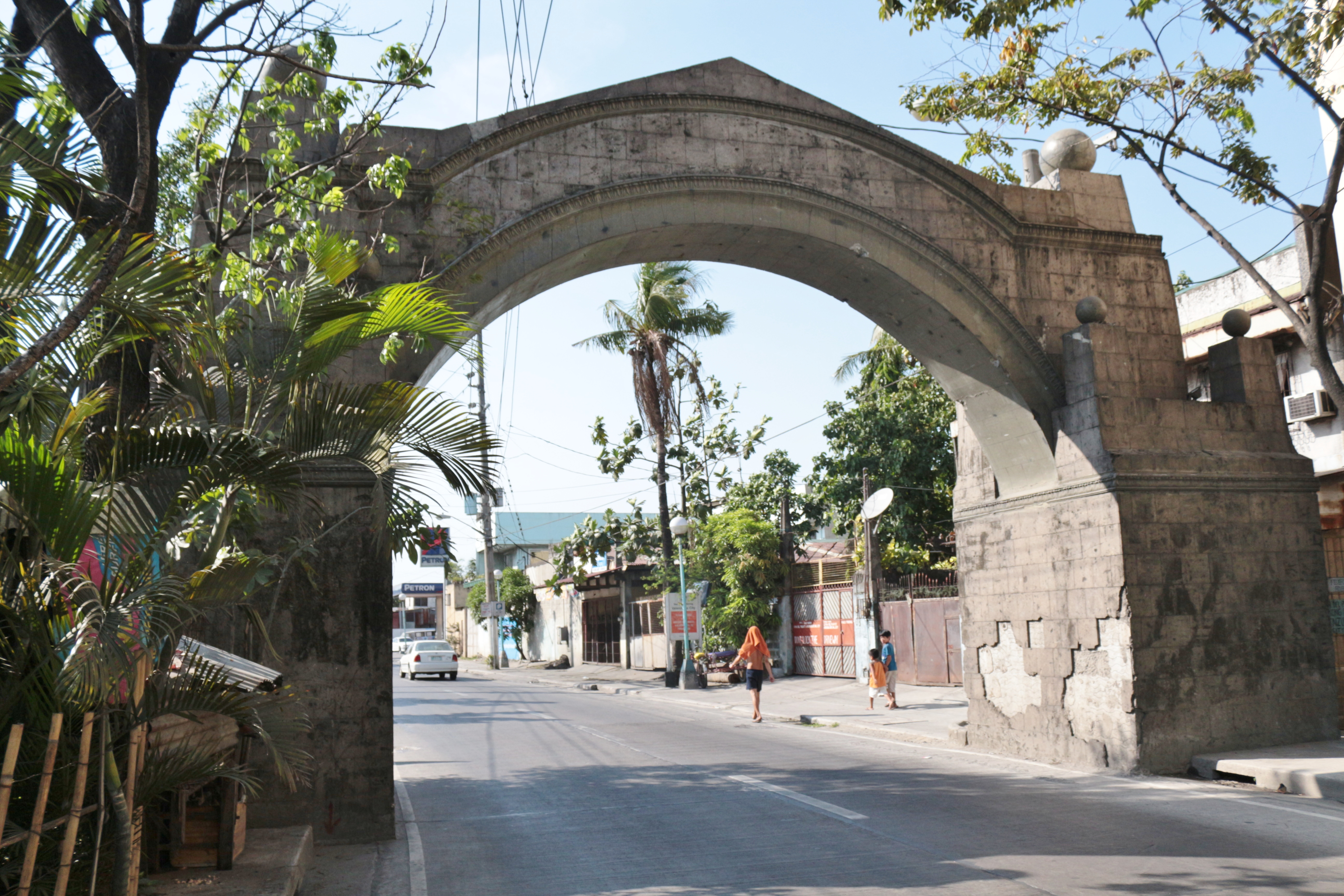 Arkong Bato Valenzuela 2